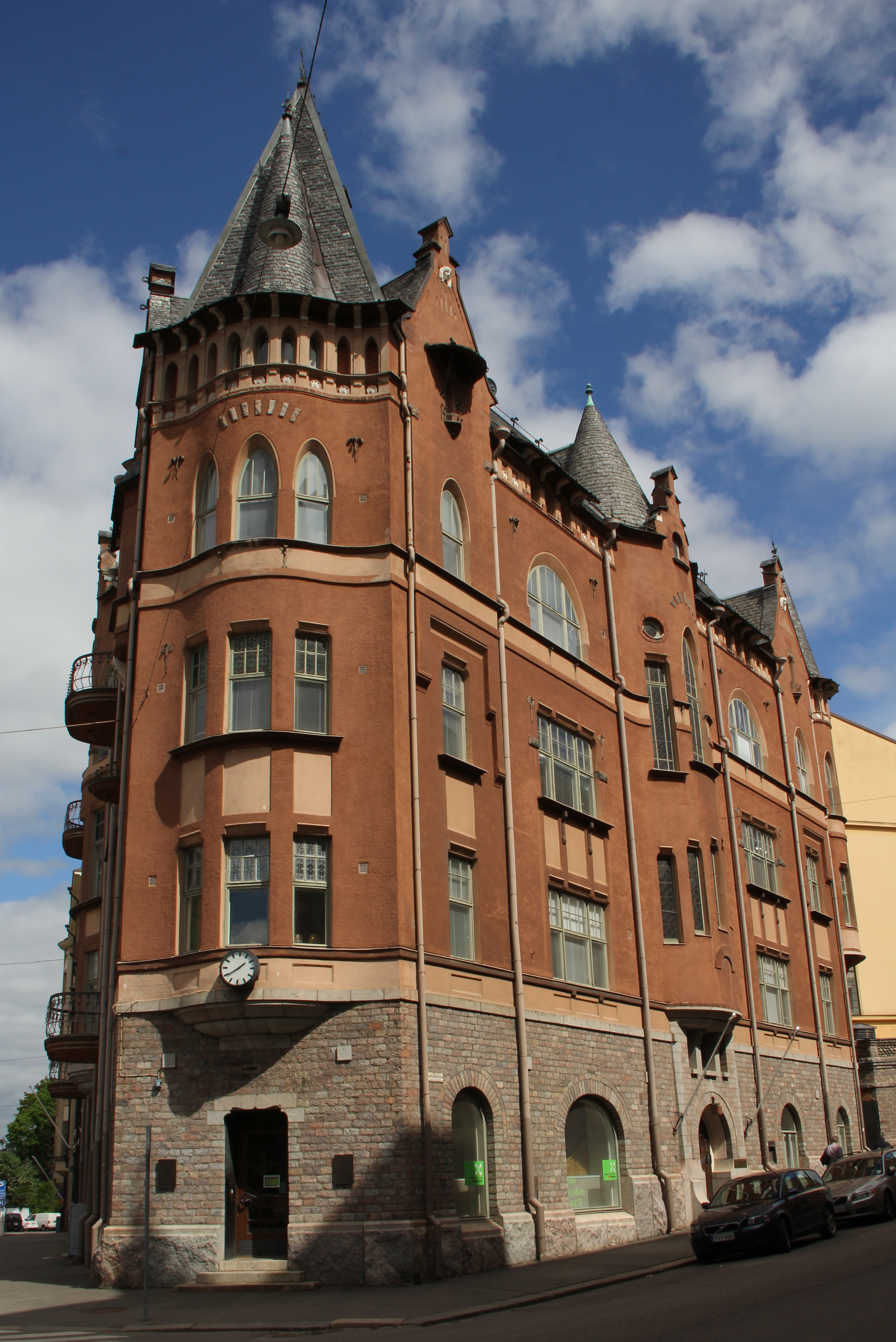 Tallberg House, Katajanokka, Helsinki, Finland. Completed in 1898, designed by Gesellius, Lindgren, Saarinen Architects. – Originally apartment house, now office building.